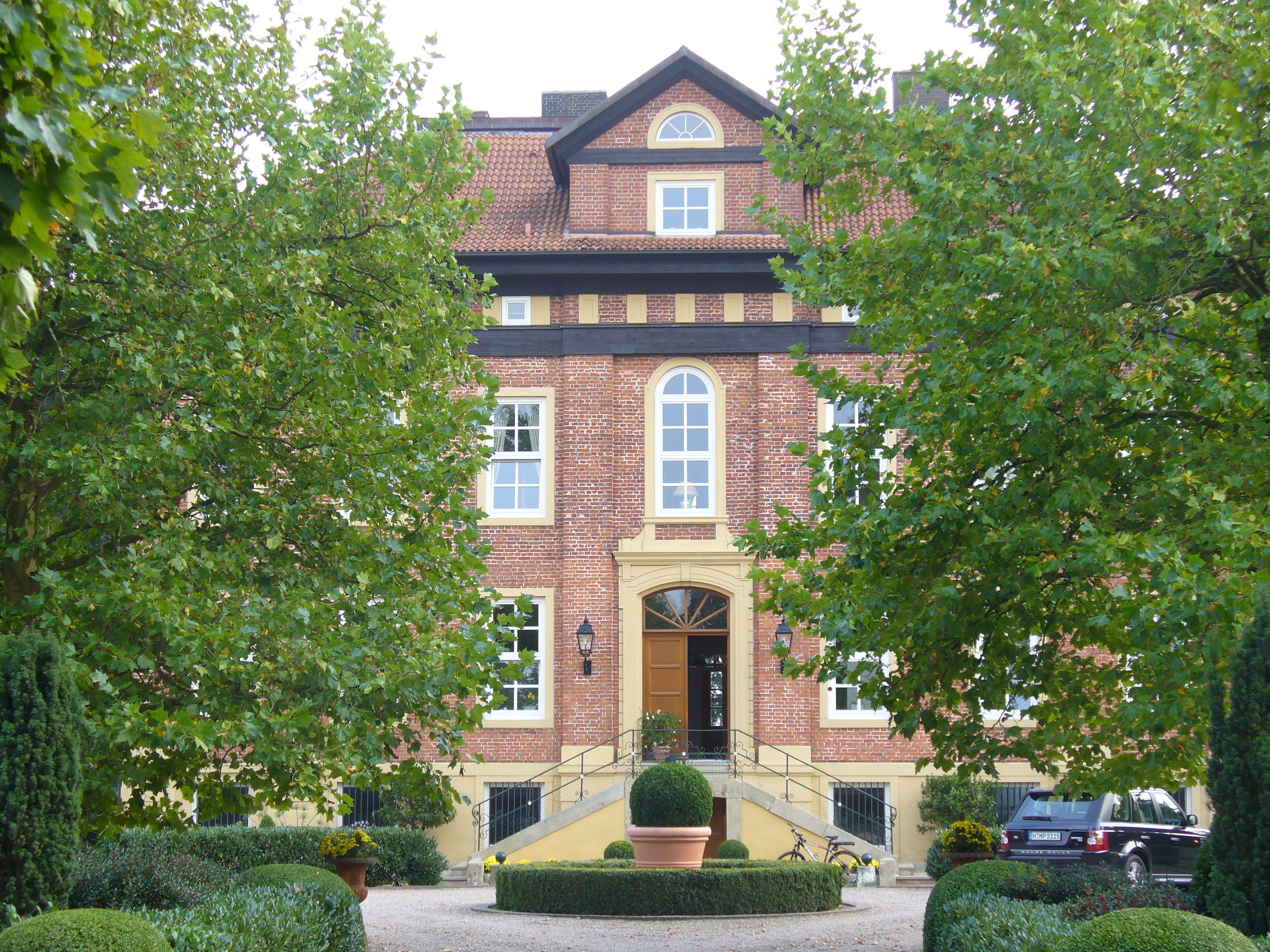 Liethe Estate